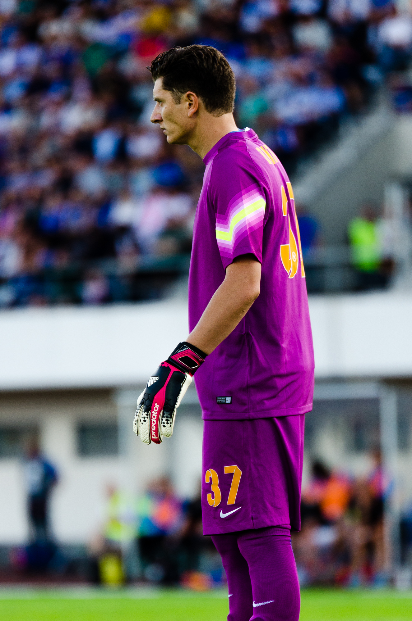 Georgios Bantis in RoPS - Asteras Tripolis match on 17th of July 2014.